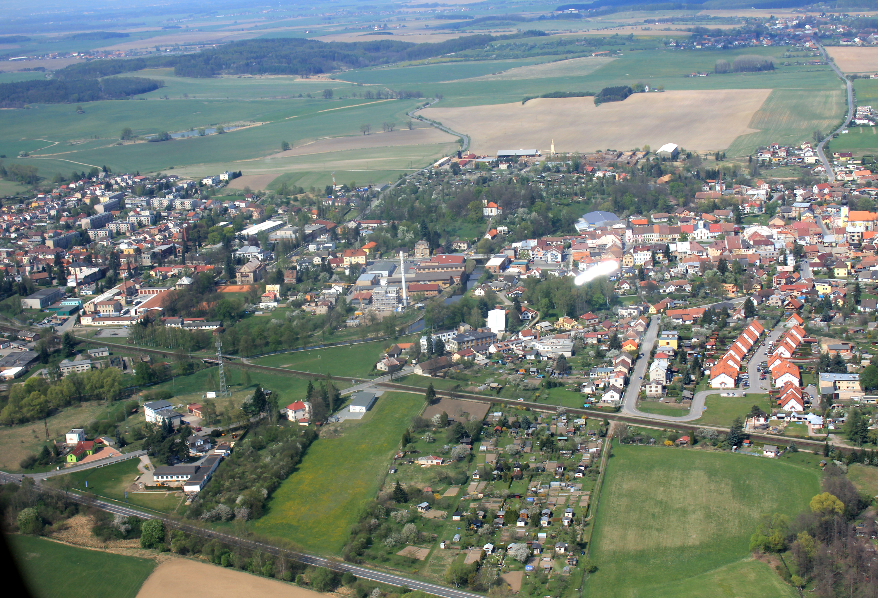 Town Třebechovice pod Orebem from air, eastern Bohemia, Czech Republic